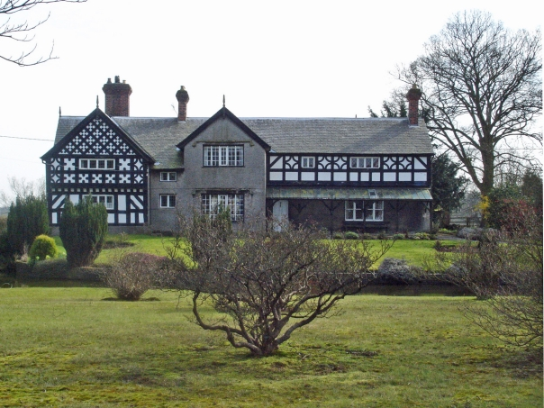 Swineyard Hall Swineyard Hall, Swineyard Lane, High Legh - front (north) elevation.